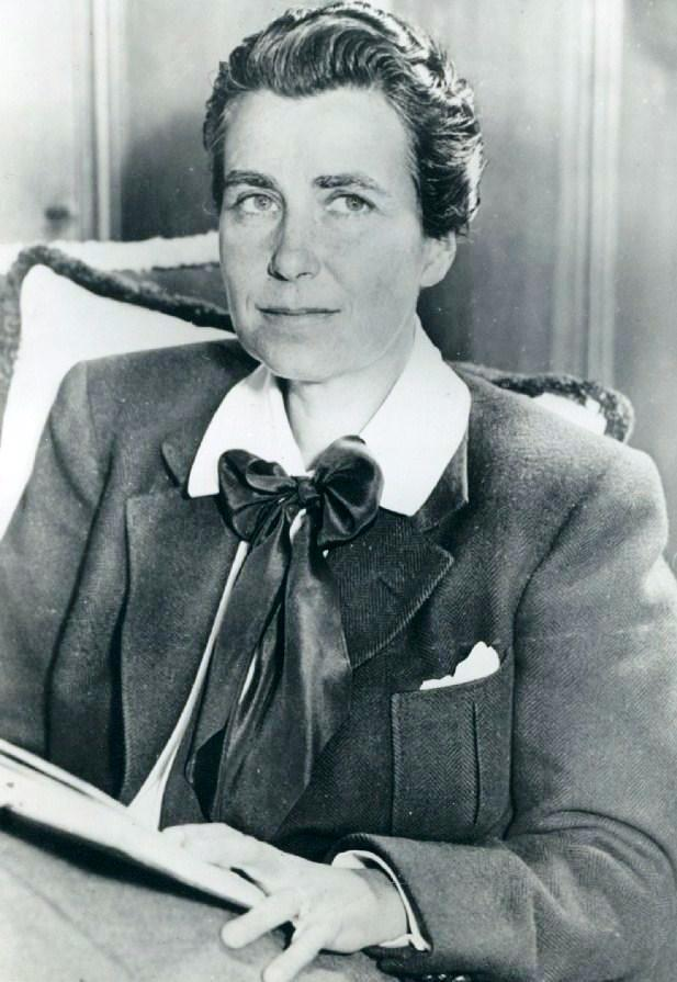 American film director Dorothy Arzner - publicity still (original image cropped : see source)